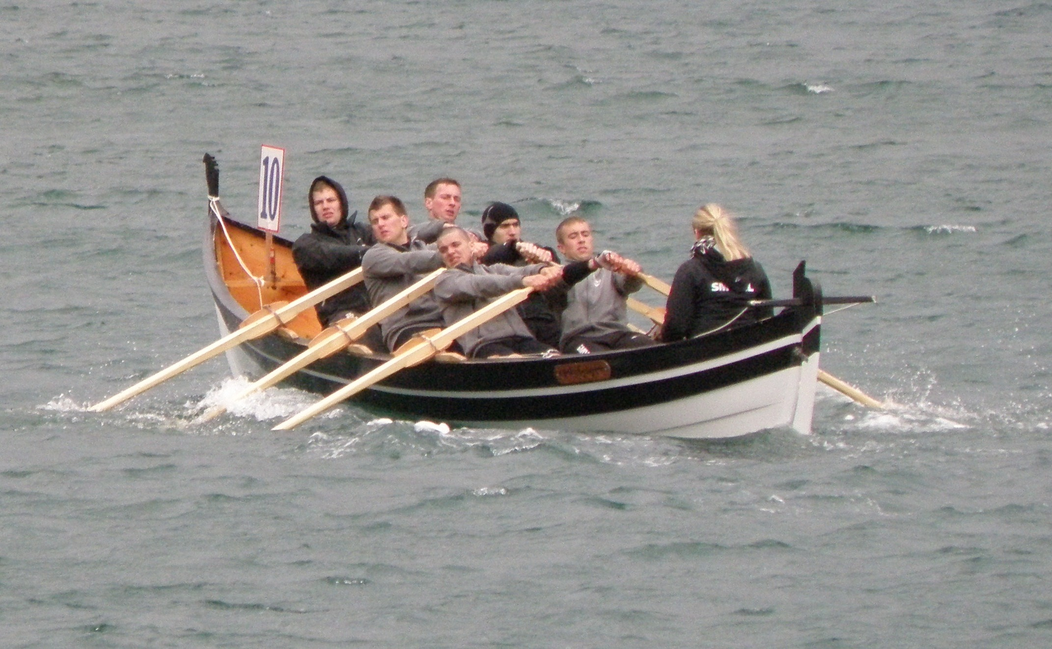 Smyril is a wooden rowboat from Vágur, Faroe Islands. This photo was taken at the Joansoka Festival in Tvøroyri on 25 June 2011. They are on their way out to the starting point. Smyril became number three in this boat race. The final boat race is at Olavsoka in Tórshavn at 28 July. There races are every summer around the islands in June and July. Føroyskt: Smyril er 6-mannafar, sum Vágs Kappróðrarfelag eigur. Myndin varð tikin á Jóansøku á Tvøroyri 25. juni 2011. Smyril gjørdist nummar 3 í kappingini hjá seksmannaførum hjá monnum.